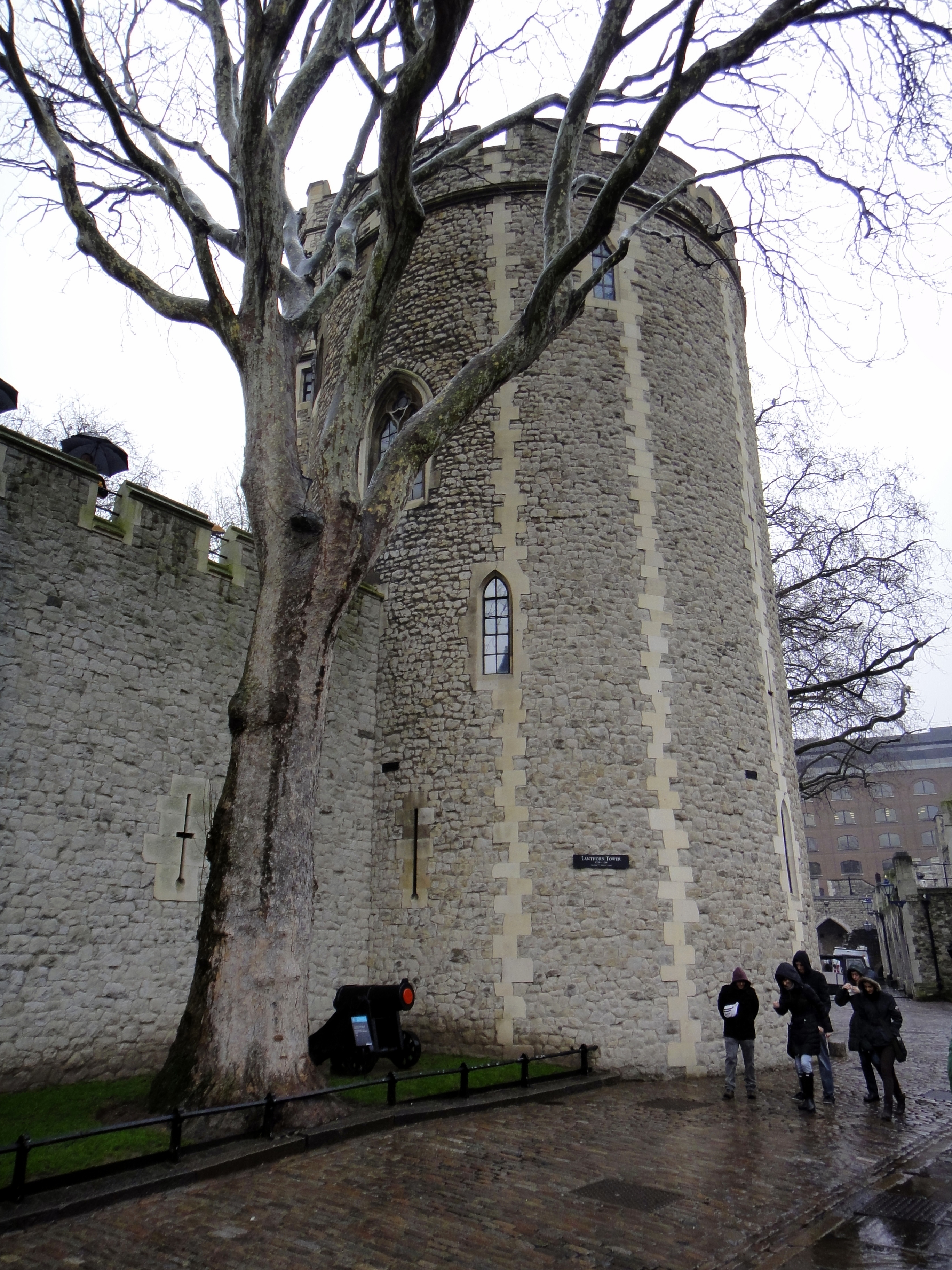 Lanthorn Tower, Tower of London